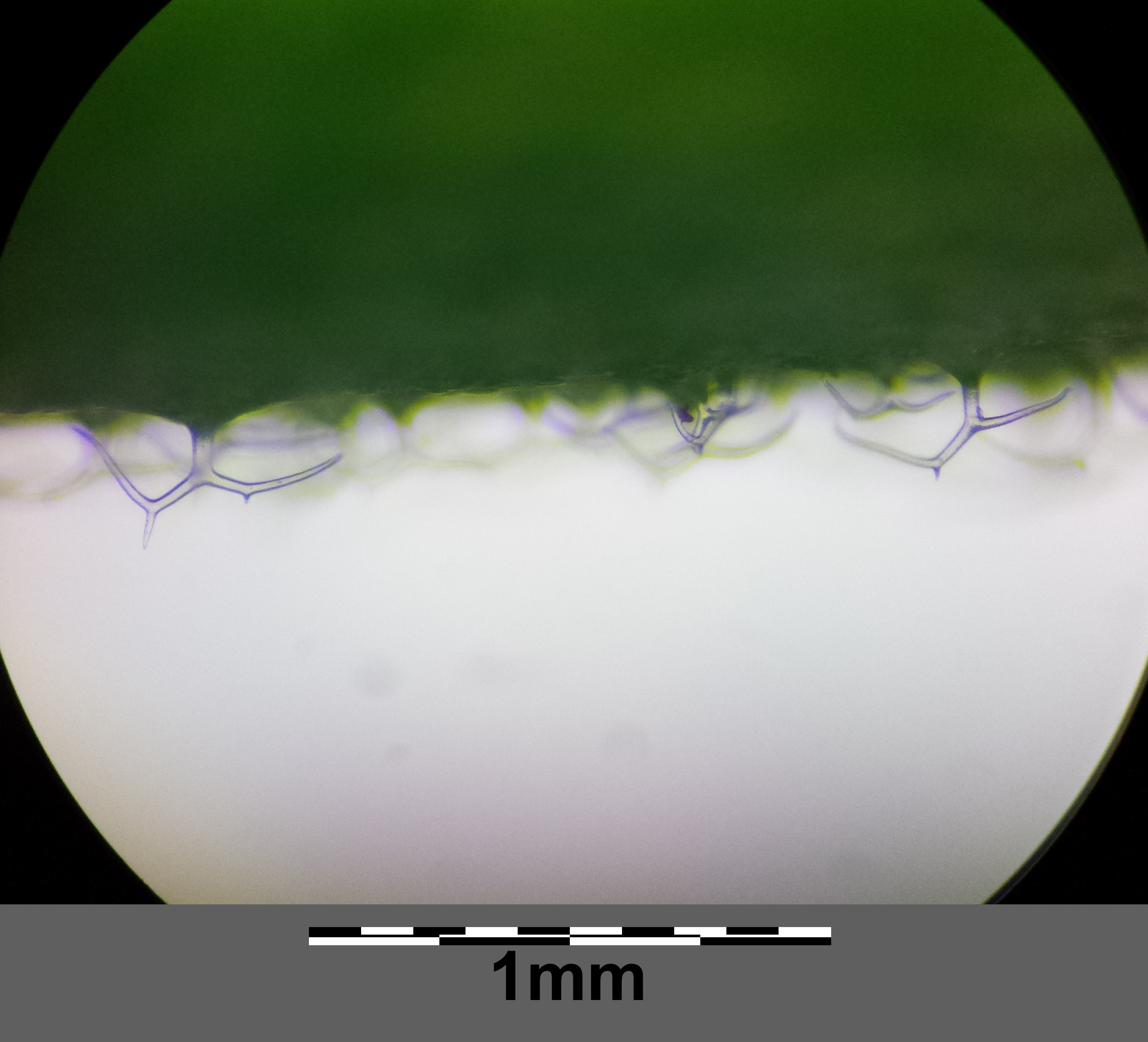 Stipe with branched hairs Taxonym: Hesperis matronalis subsp. matronalis ss Fischer et al. EfÖLS 2008 ISBN 978-3-85474-187-9 Location: near Niederhollabrunn, district Korneuburg, Lower Austria - ca. 350 m a.s.l. Habitat: garden